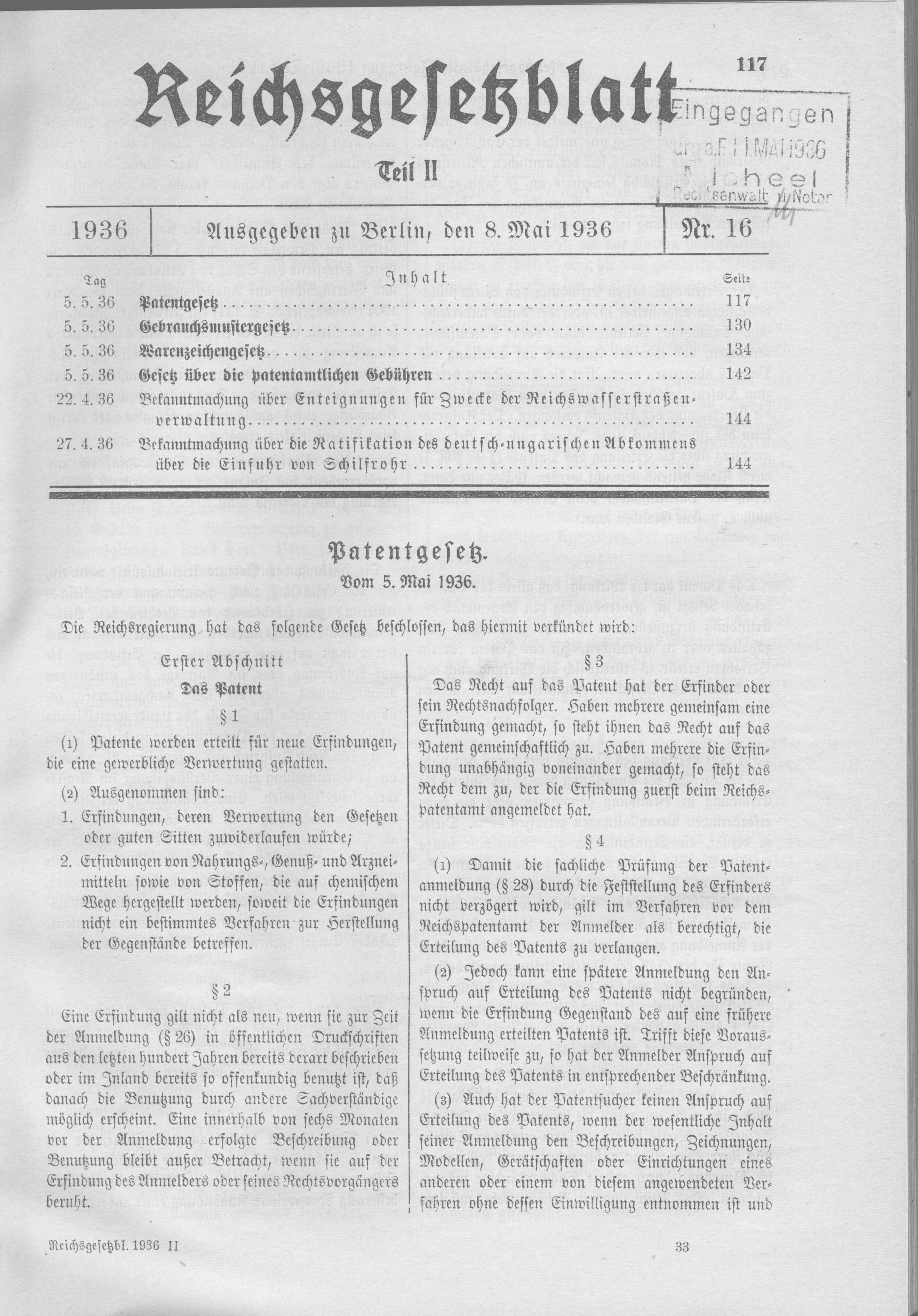 Scan from the Imperial Law Gazette of Germany, 1936, part 2